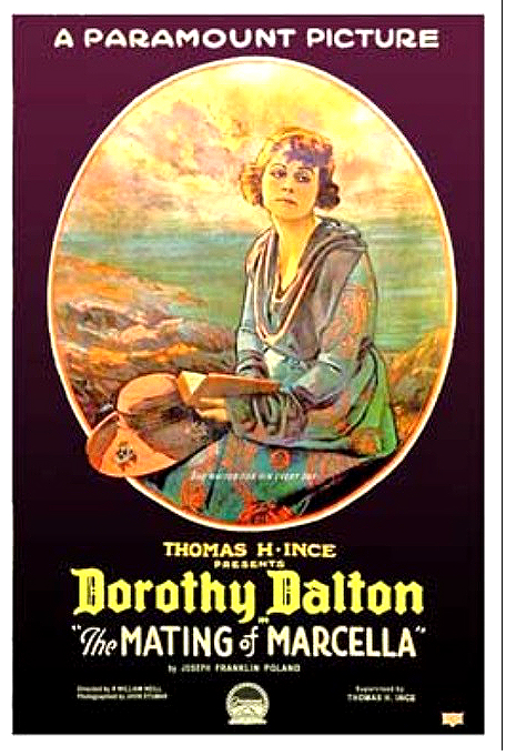 Poster for the 1918 American film The Mating of Marcella with Dorothy Dalton.